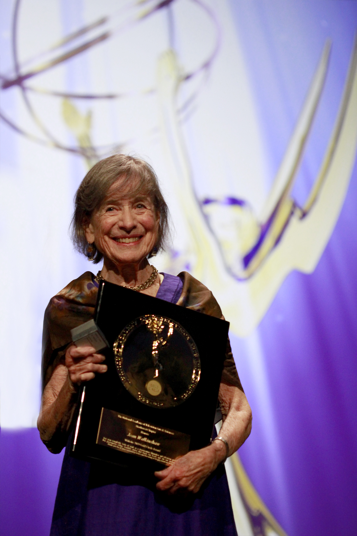 Jean Walkinshaw was inducted into the 2019 Gold Circle of the National Academy of Television Arts and Sciences, Northwest Chapter